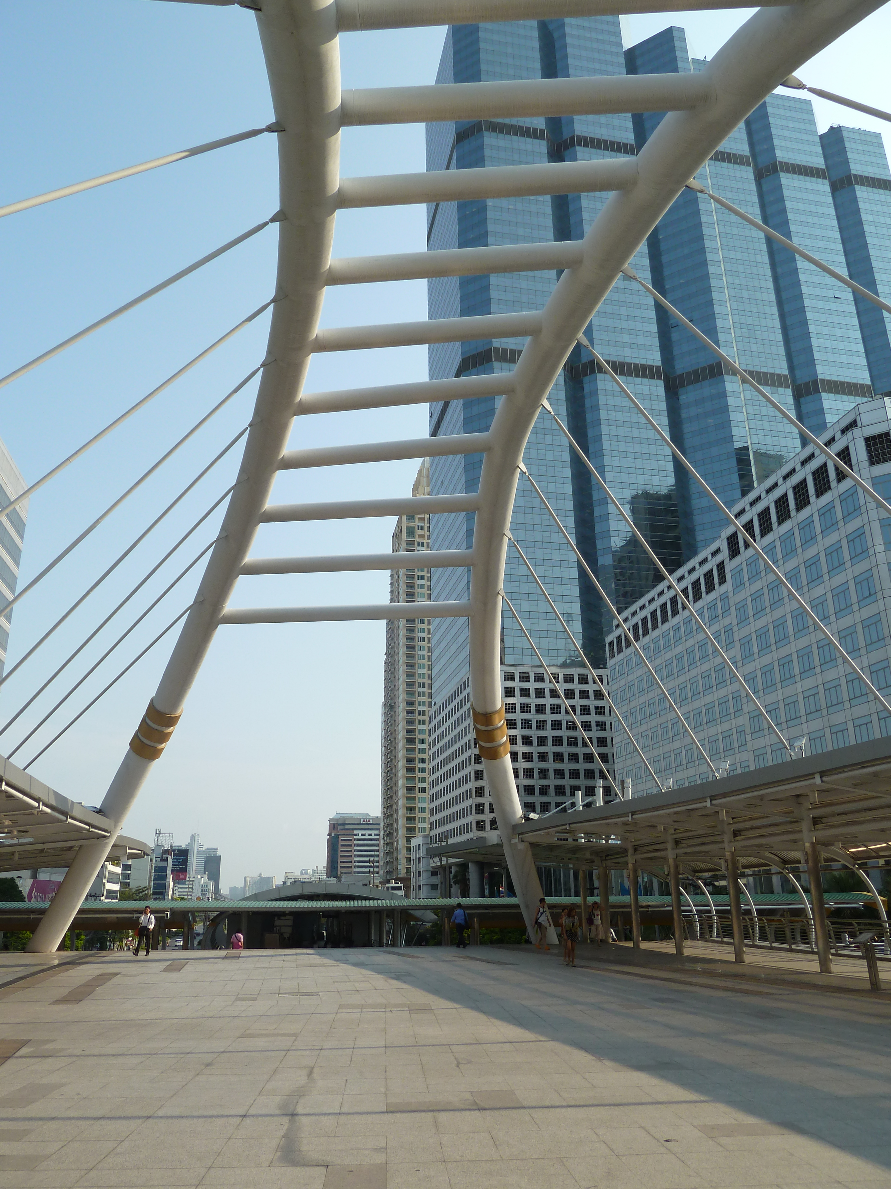 Bangkok, Thailand